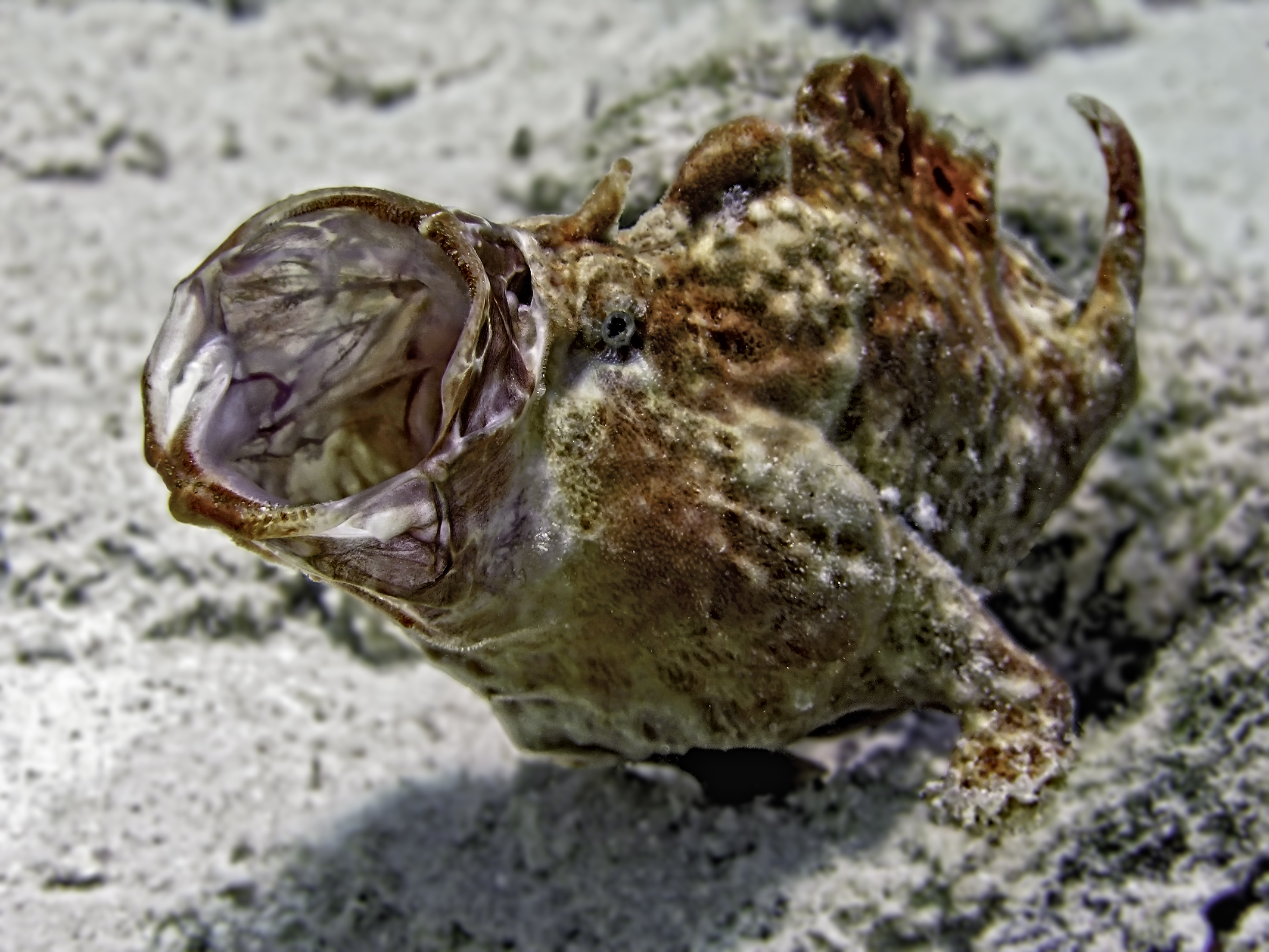 Longlure frogfish (Antennariidae) realigning its jaw.